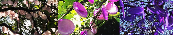 Tree of Photosynthesis, detail 2006